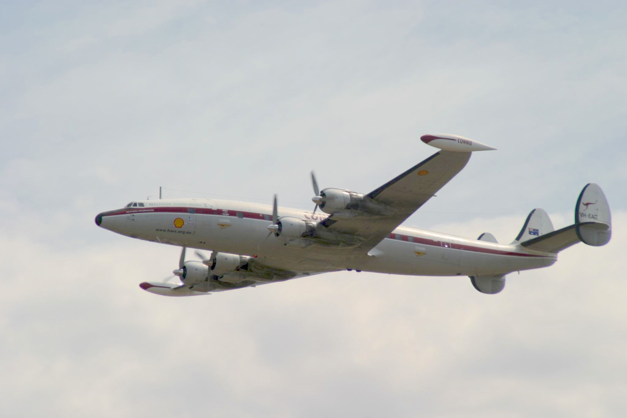 The Lockheed Super Constellation "Connie", restored in the United States, performing a flypast at the 2005 Australian International Airshow and Aerospace & Defence Exposition.